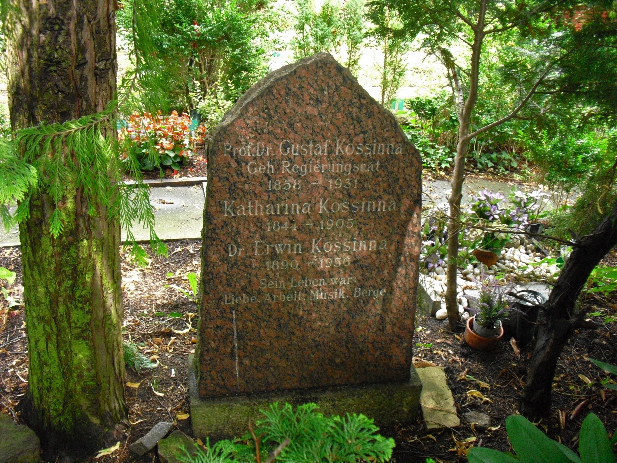 Grave of German linguist and professor of German archaeology Gustaf Kossinna in Berlin, Friedhof Lichterfelde.